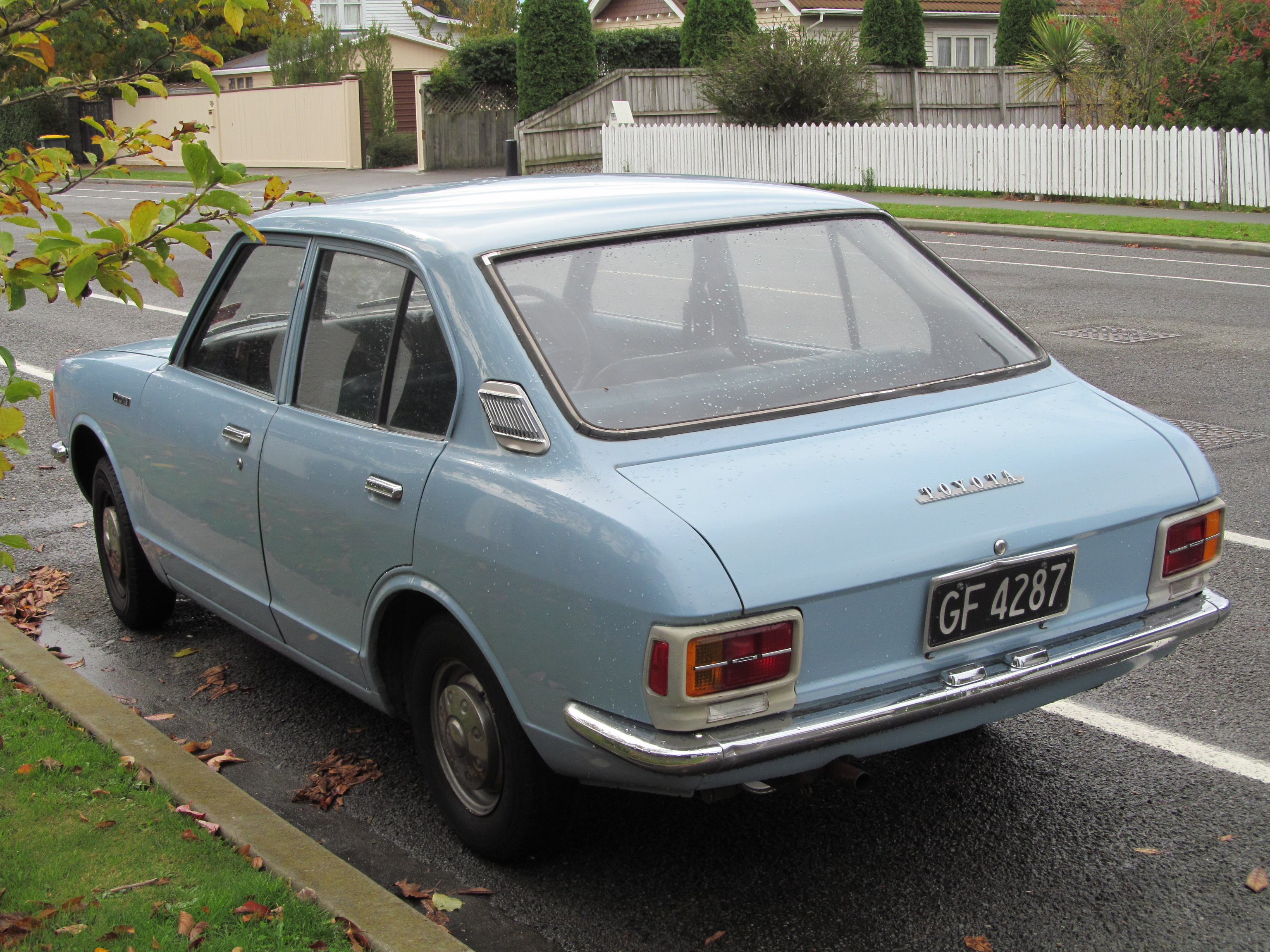 GF4287 If any Corollas from 2012 still look as good as this does when they reach 40 (if they last that long), I will be genuinely surprised! I hope this is in the hands of an enthusiast.